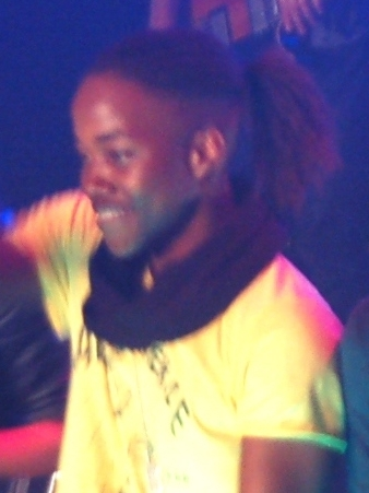 Leon Thomas III with the rest of the Victorious cast performing at Avalon Hollywood.)